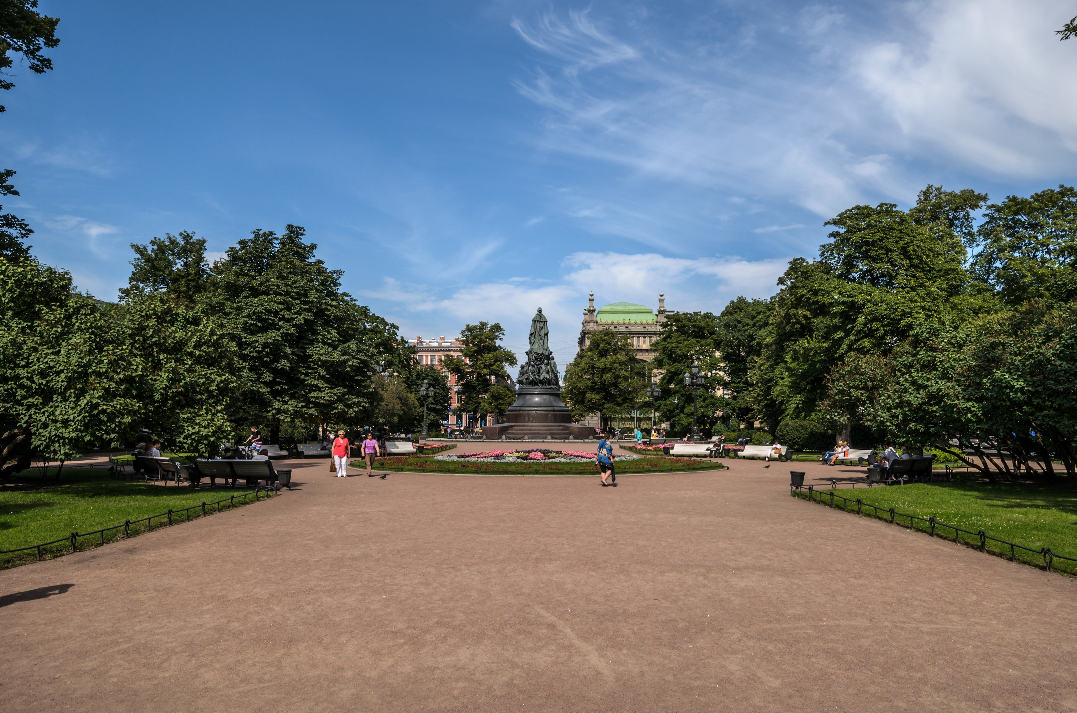 Ostrovskogo Square in Saint Petersburg